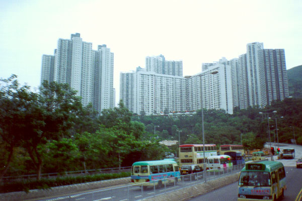 Tsui Lam Estate, Tseung Kwan O. Photo taken by myself (User:Sl) on April 2002. 將軍澳翠林邨。